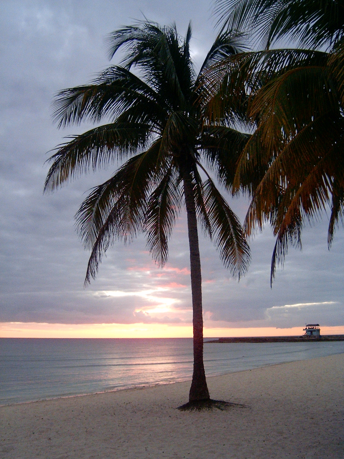 Sunset in Playa Giròn (Cuba)